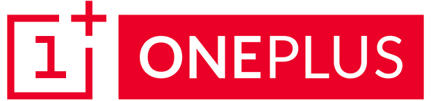 OnePlus logo